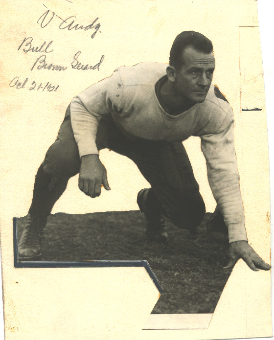 John Neil "Bull" Brown, captain and guard, Vanderbilt University football team. In uniform, in three-point stance. This work is in the public domain because it was published in the United States between 1923 and 1963 and although there may or may not have been a copyright notice, the copyright was not renewed. Unless its author has been dead for the required period, it is copyrighted in the countries or areas that do not apply the rule of the shorter term for US works, such as Canada (50 pma), Mainland China (50 pma, not Hong Kong or Macao), Germany (70 pma), Mexico (100 pma), Switzerland (70 pma), and other countries with individual treaties. See Commons:Hirtle chart for further explanation. This work is in the public domain in the United States because it was published in the United States between 1923 and 1977 without a copyright notice. See Commons:Hirtle chart for further explanation. Note that it may still be copyrighted in jurisdictions that do not apply the rule of the shorter term for US works (depending on the date of the author's death), such as Canada (50 p.m.a.), Mainland China (50 p.m.a., not Hong Kong or Macao), Germany (70 p.m.a.), Mexico (100 p.m.a.), Switzerland (70 p.m.a.), and other countries with individual treaties.